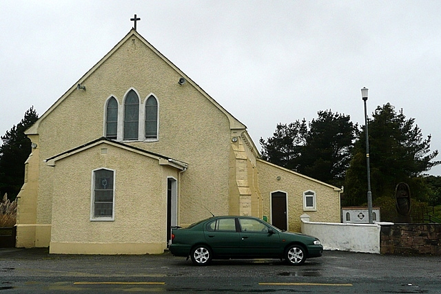 Garmna (Gorumna) island church This is now the only church on the island, and is central and therefore accessible to all four main communities. It is on the R374 across the centre of the island and is the most significant thing in this square of otherwise typical rocky moorland.